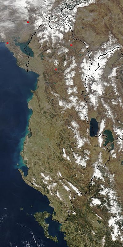 Albania from space taken by Terra satellite showing scattered fires.